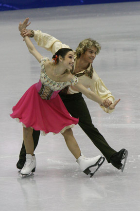 2008 Four Continents Figure Skating Championships - Meryl Davis and Charlie White